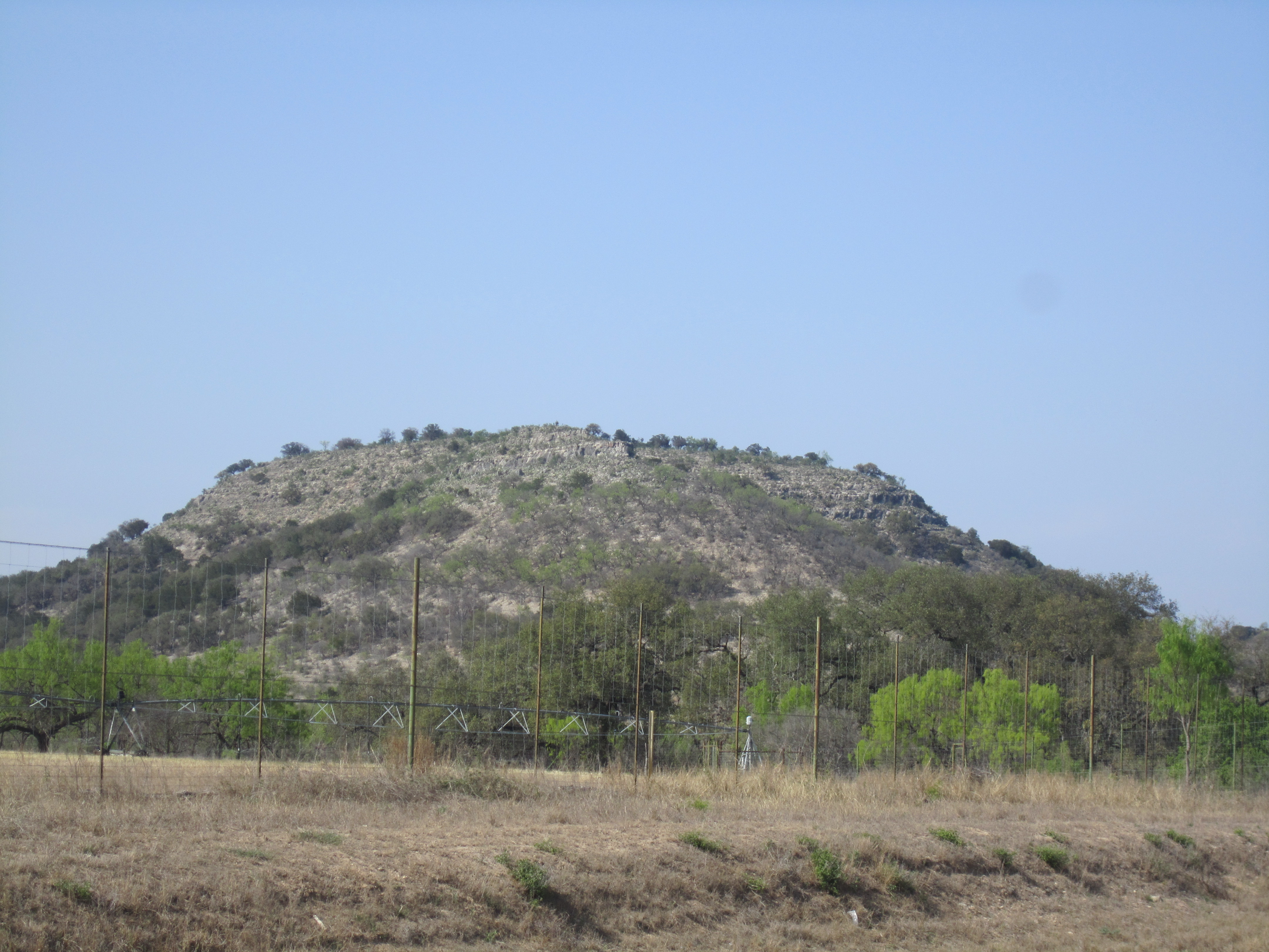 I took photo with Canon camera in Real County, TX.